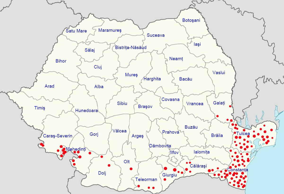 Dolichophis caspius in Romania